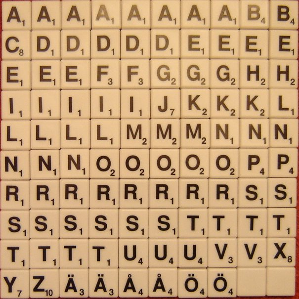 Created by [ released into the public domain.